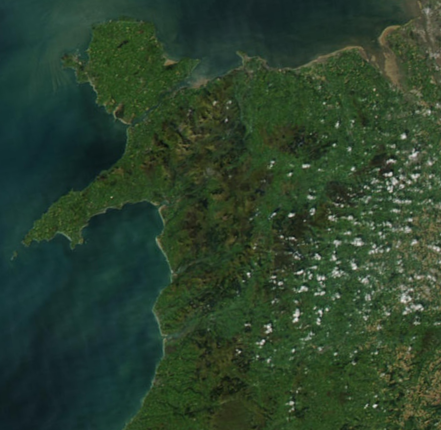 A Cropped Image of Wales-NASA-250.jpg, (File:Wales-NASA-250.jpg), depicting a satellite image of North Wales, Wales, United Kingdom.